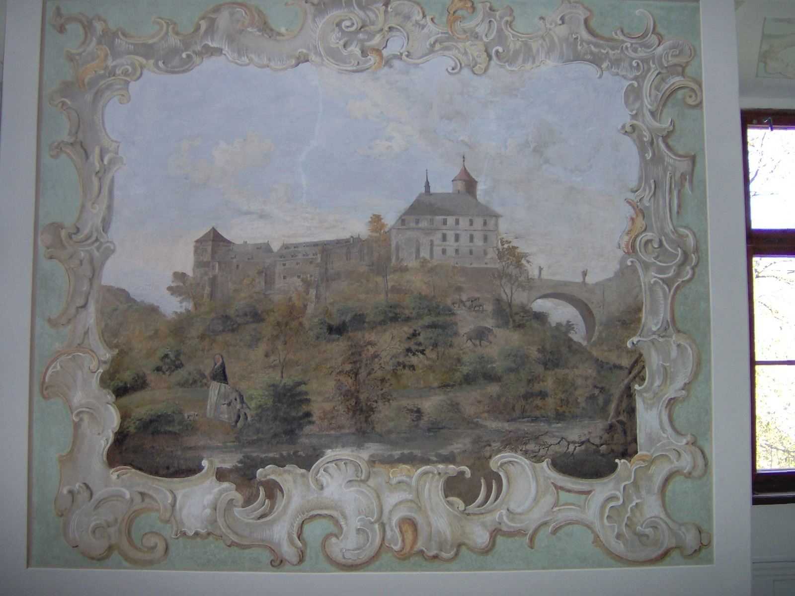 Fresco with Veveří castle, Veveří castle, Brno, Czech Republic